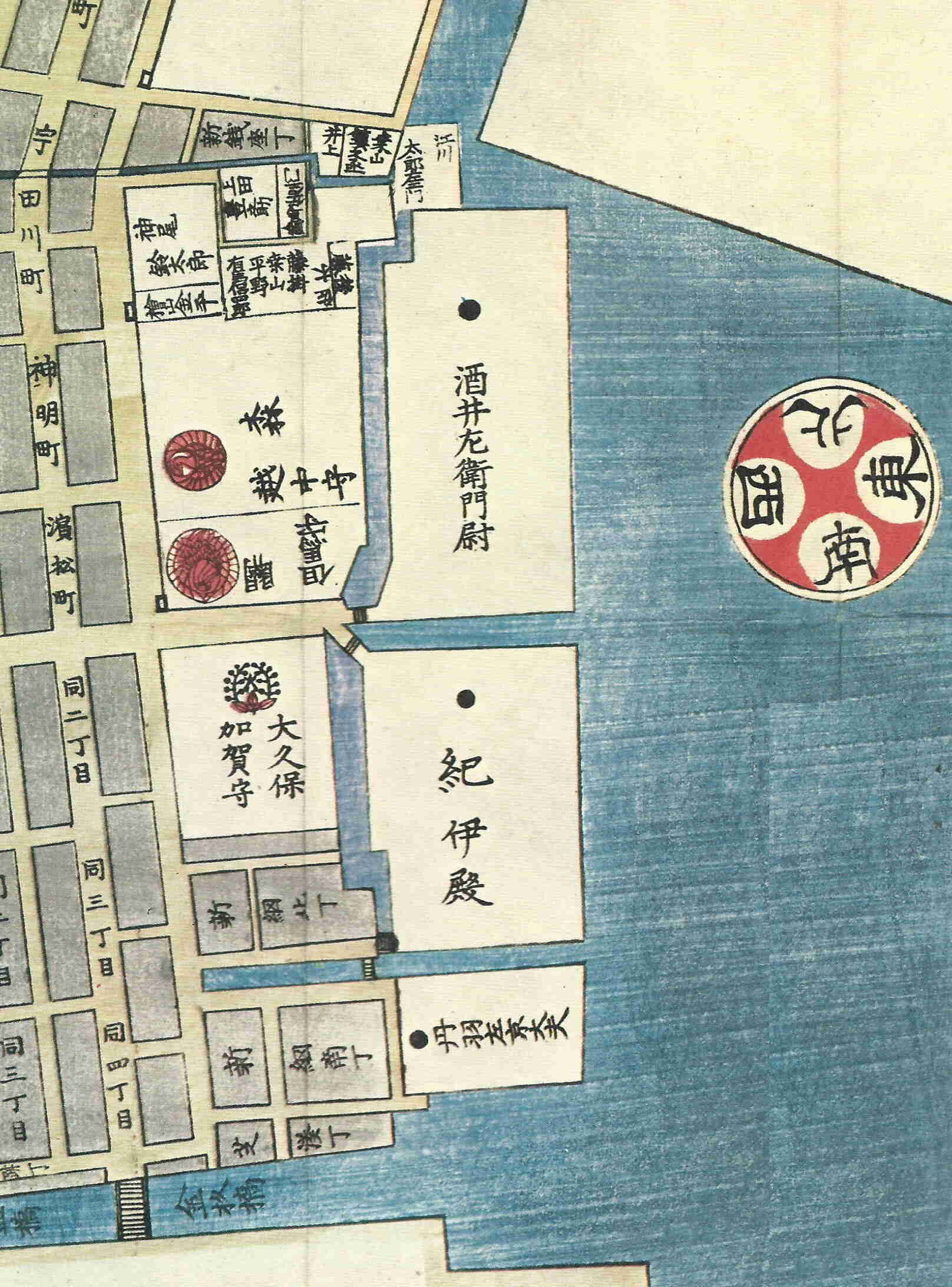 from old map